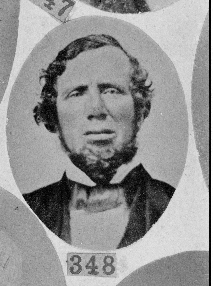 Thomas Fulton (ironmaster) (1826-1898) ironmaster and foundryman, Scotland and Australia